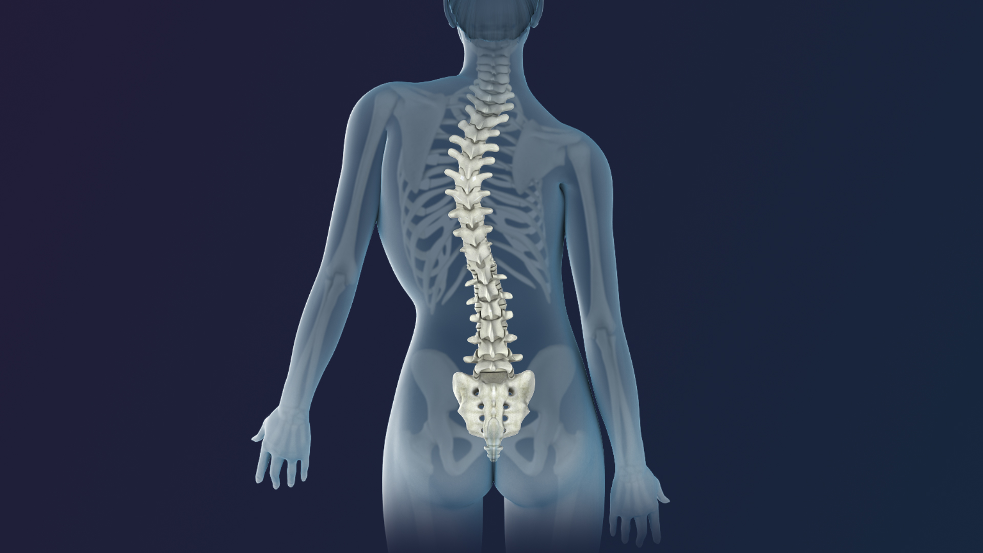 3D Medical Animation still shot of spine having scoliosis